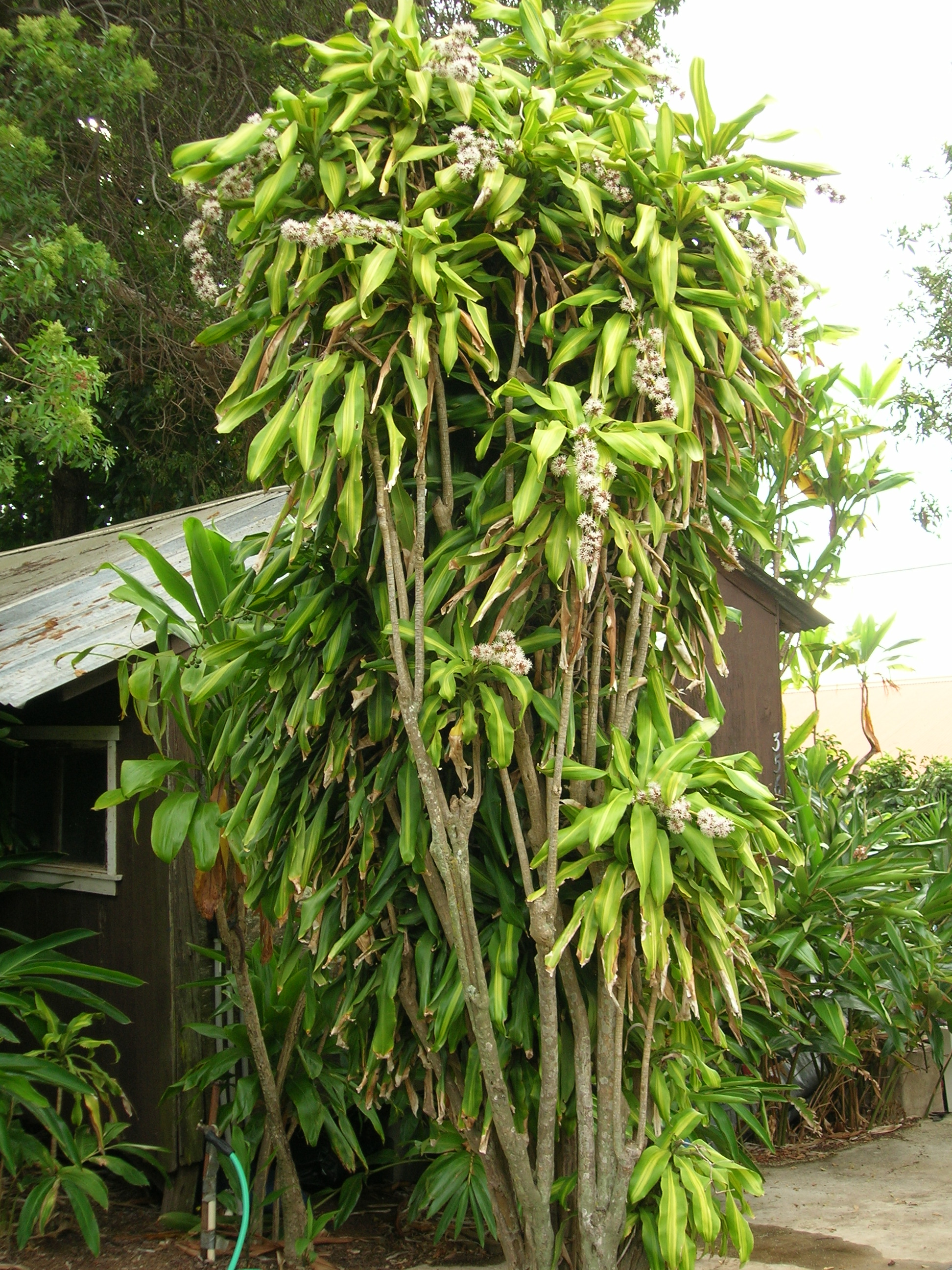 Dracaena fragrans (habit). Location: Maui, Makawao